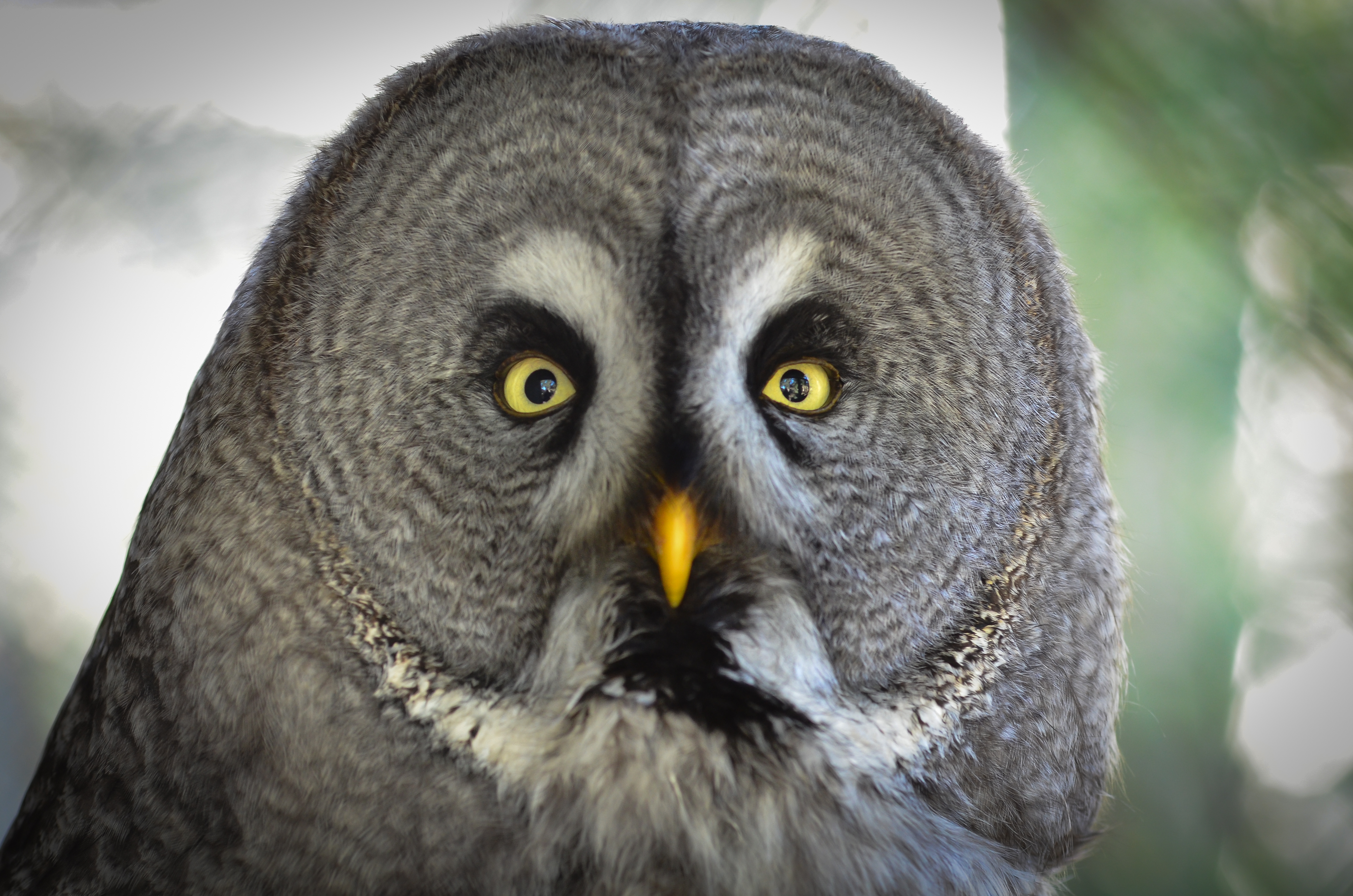 Great Grey Owl (Strix nebulosa) at Weltvogelpark Walsrode (Walsrode Bird Park, Germany)